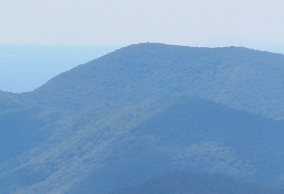 Cowrock Mountain viewed from Brasstown Bald